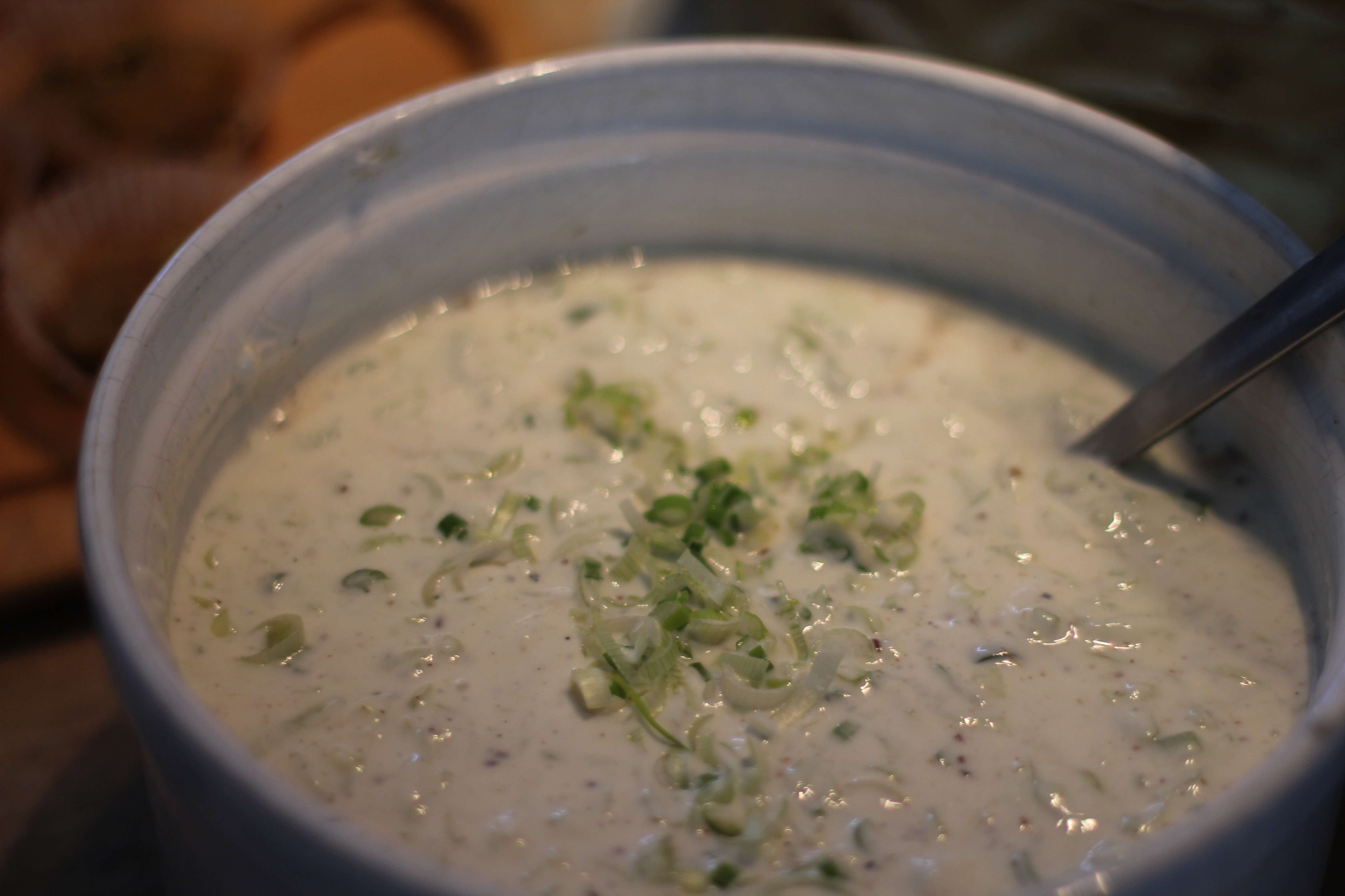 Spring onion raitha, Thali